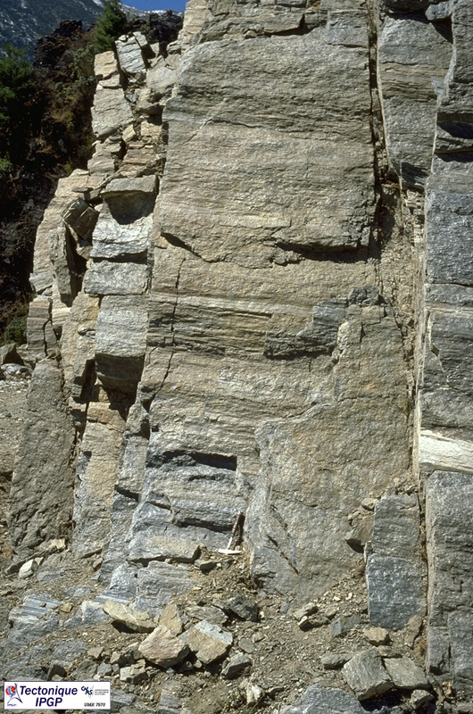 Foliation with nearly horizontal stretching lineation in gneiss. Ailao Shan - Red River shear zone (Yunnan, China).